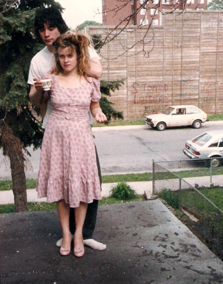 Sam P. and Kat B. drink tea on the roof of the Cupola House. East 24th Street and 4th Avenue South, Minneapolis. This historic Minneapolis house (now relocated) was said to be haunted by evil spirits. Once a bewildered resident found a fork embedded in the inner sole of her shoe. The mystery of the fork was never solved. The house has been repainted numerous times, but no matter how the paint is applied, it bubbles and peels from the exterior, reveling the original layer of dingy white paint from long ago. loud BONG sounds are common in the narrow halls of this Victorian mansion.